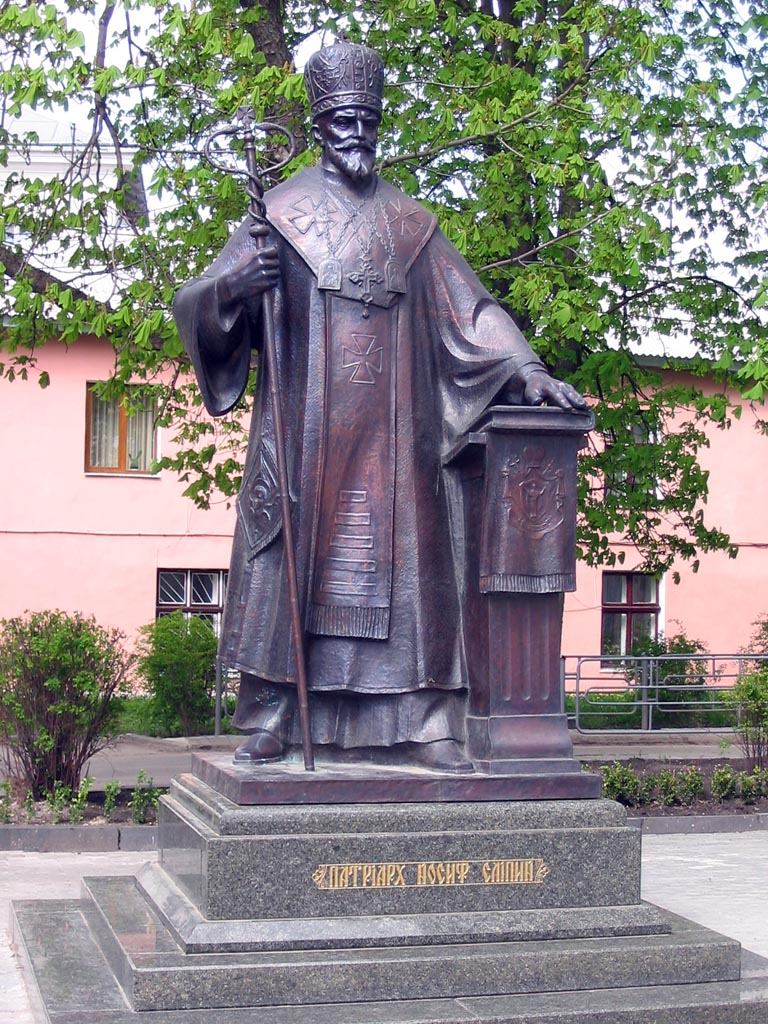 A monement to Patriarch Josef Slipyj before the of Cathedral of the Immaculate Conception of The Blessed Virgin Mary